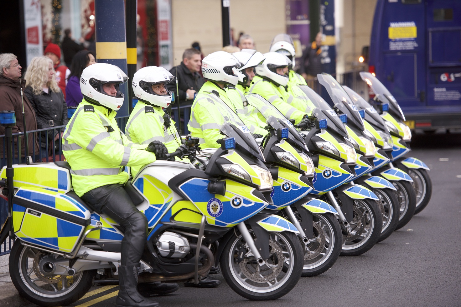 The Queen visits Birmingham - November 19 2015